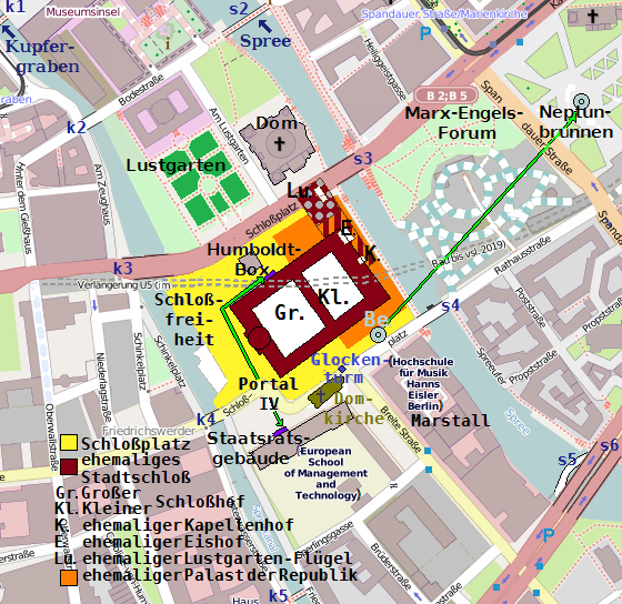 Map of centered island of river Spree with Stadtschloß, Berlin